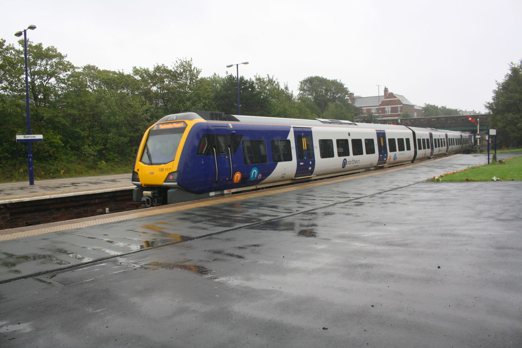 New diesel multiple unit departs Barrow Station heading for Manchester Airport. 3-car dmu Class 195 number 195 117 built by CAF and assembled in Spain and Newport and introduced into traffic by Northern in 2019.